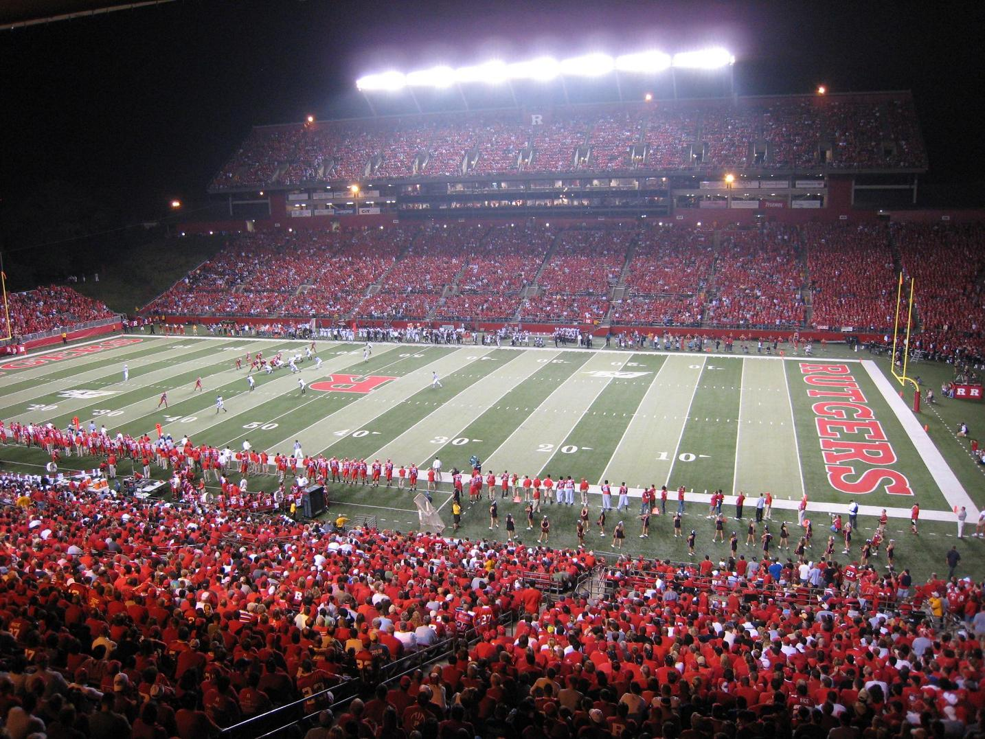 Scarlet Knights playing vs. the Cincinnati Bearcats in the Rutgers Stadium in Piscataway, New Jersey with 43,768 spectators.